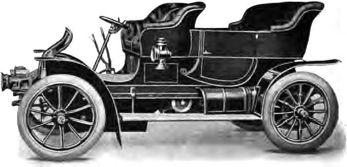 James and Browne car 20hp petrol touring car (Horizontal underfloor four cylinder engine)